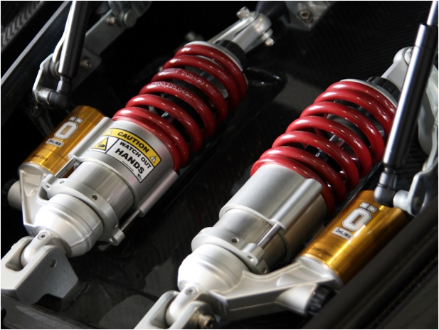 hydraulic a.d.Tramontana Ride-Height System